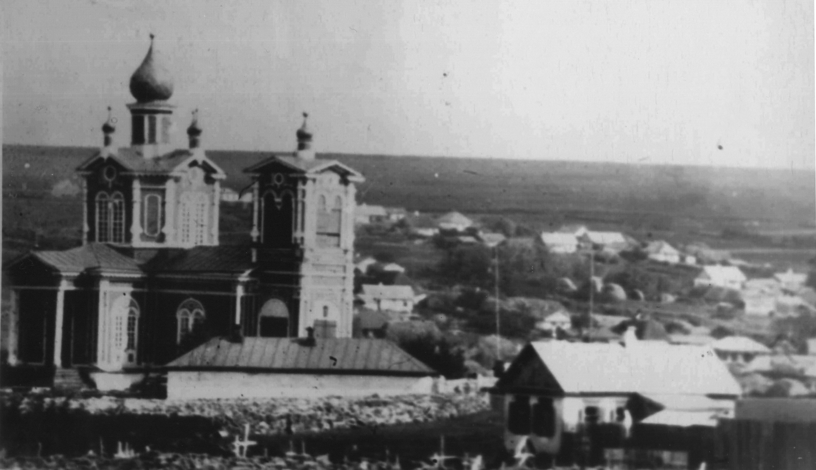 Orthodox church in Torez